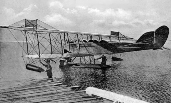 A U.S. Navy Curtiss N-9 seaplane at a Naval Air Station, 1917.